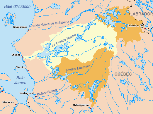 The La Grande River basin. In orange, the two main river diversions engineered as part of the James Bay Project. Northeast, the Caniapiscau River; south, the EOL (Eastmain, Opinaca, La Grande), feeds the Robert-Bourassa reservoir. Updated as of 2010.